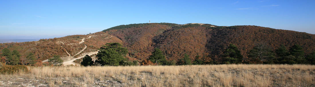 the top of the "Grand" (tall) Luberon (84), France. It is a view from west on the Mourre Nègre.